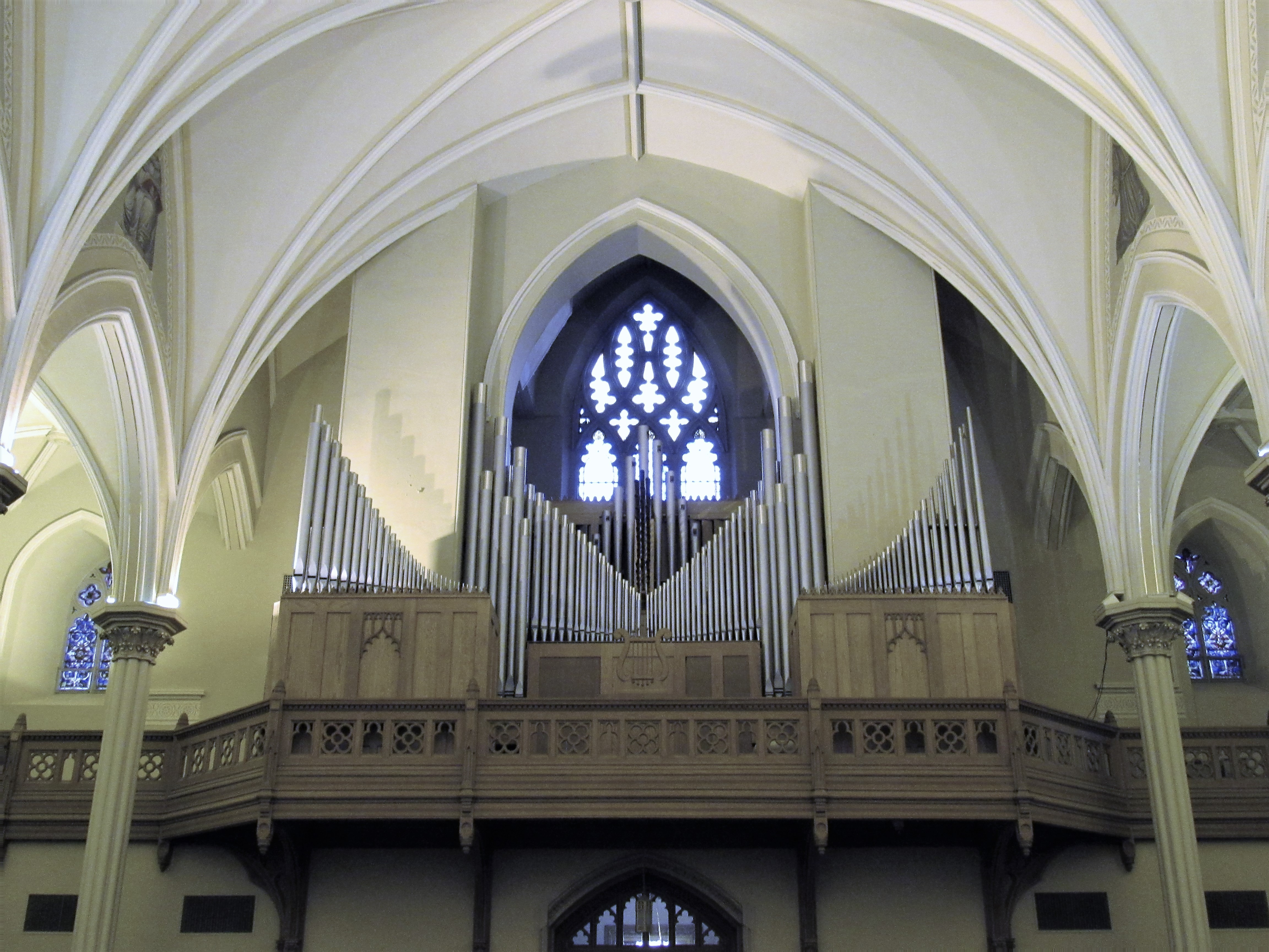 The gallery of St. Raphael's Cathedral in Dubuque, Iowa.